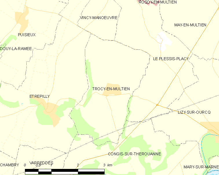 Map of French municipality Trocy-en-Multien